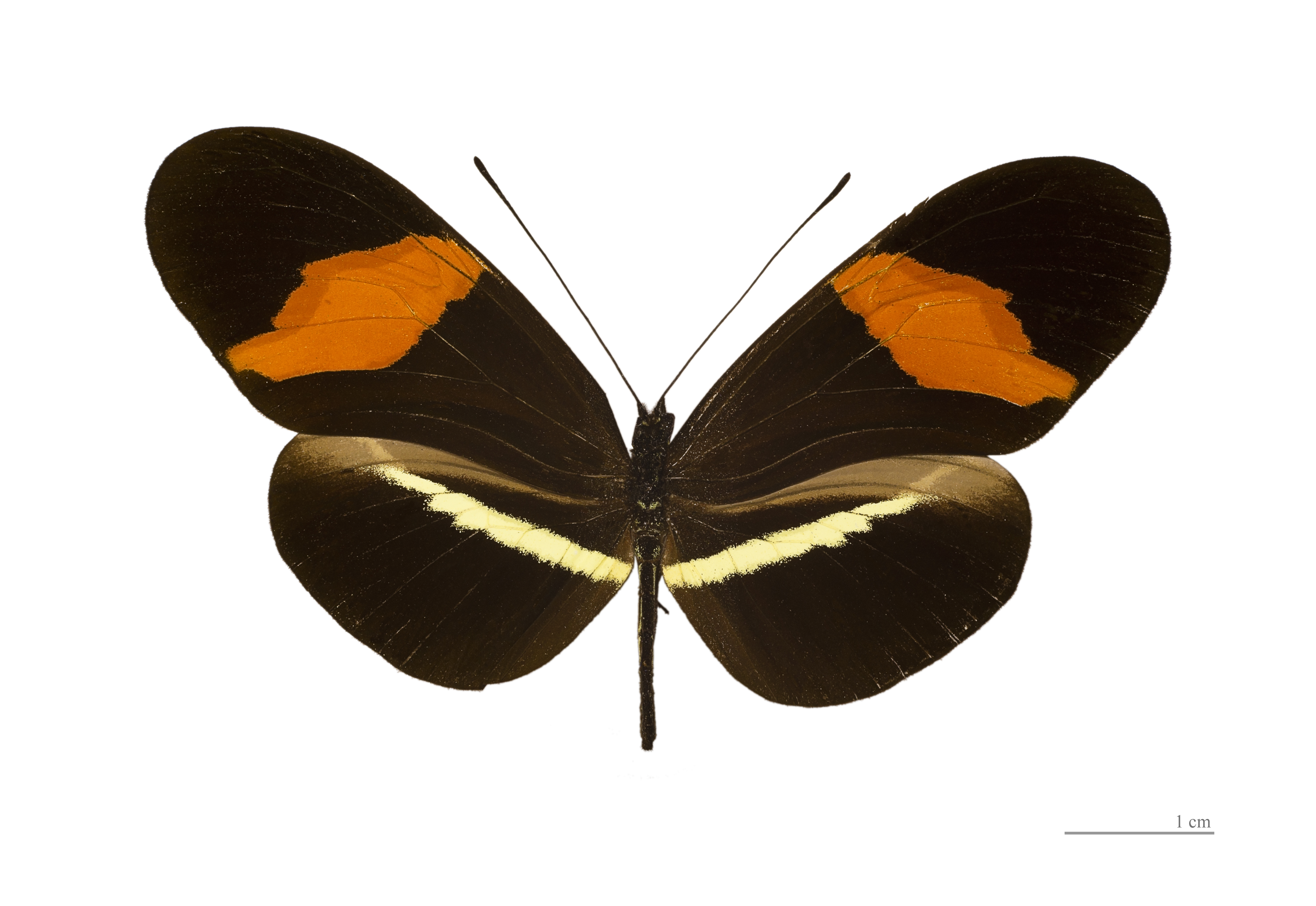 ♂ - Dorsal side Locality: San pedro de soteapan Veracruz, Mexico.